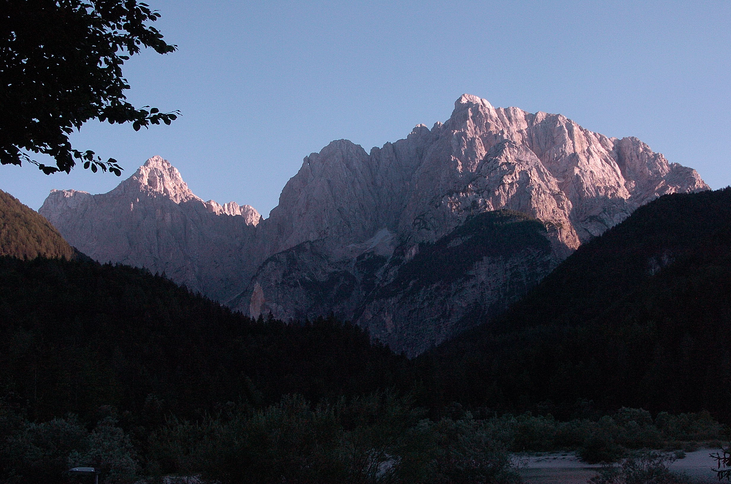 Razor and Prisojnik, mountain peaks in the Julian Alps of Slovenija